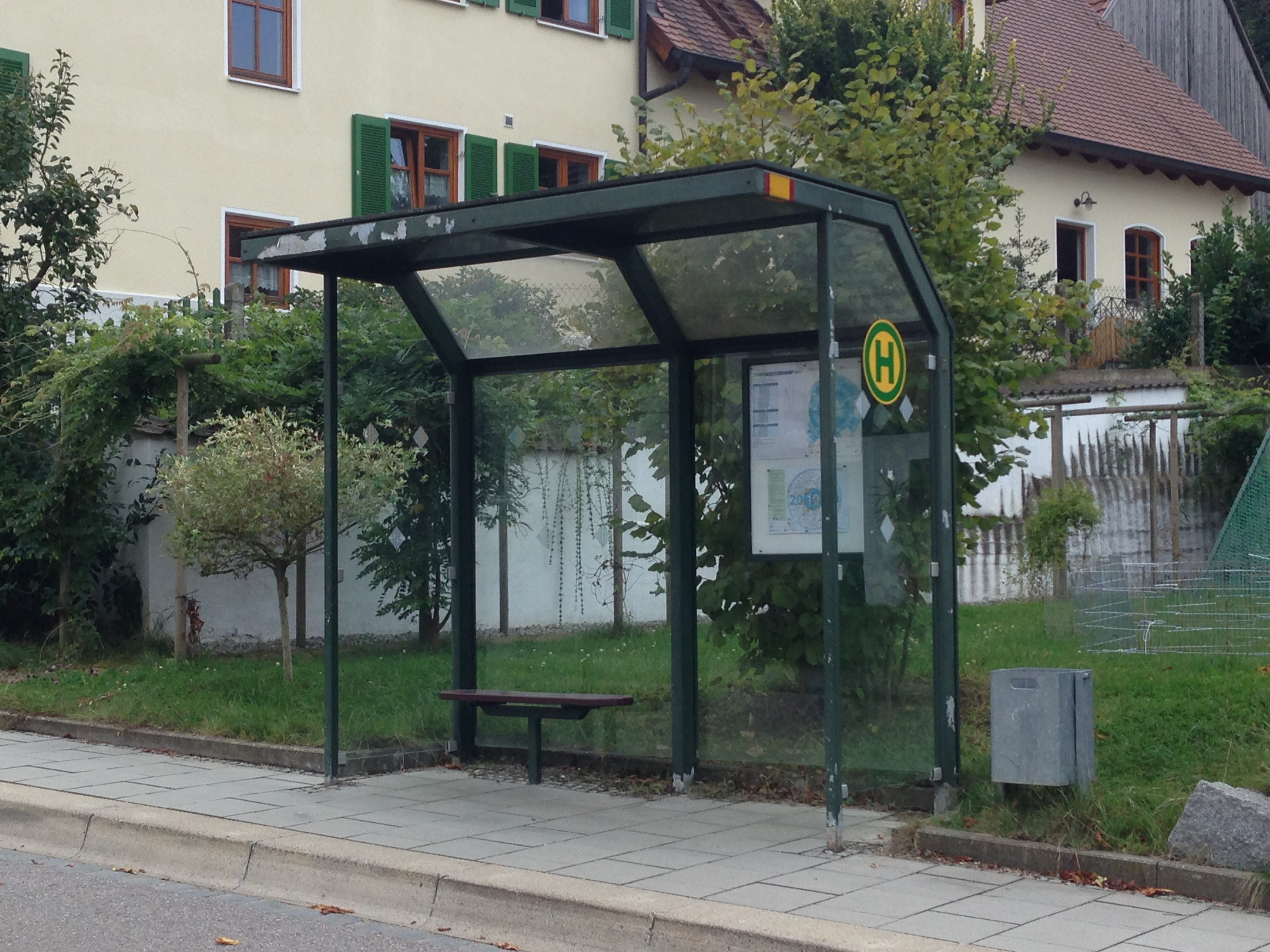 Edenbergen bus station